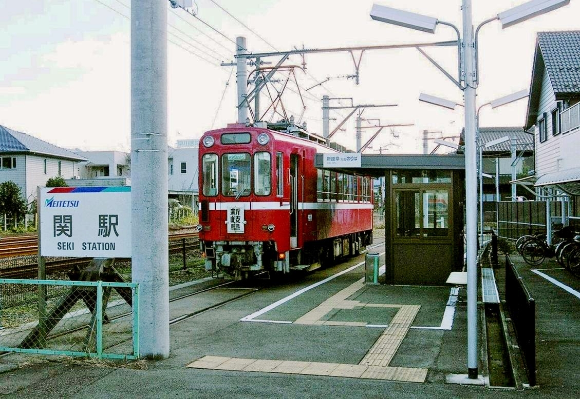 Seki Station on Nagoya Railroad Minomachi Line (now abolished)